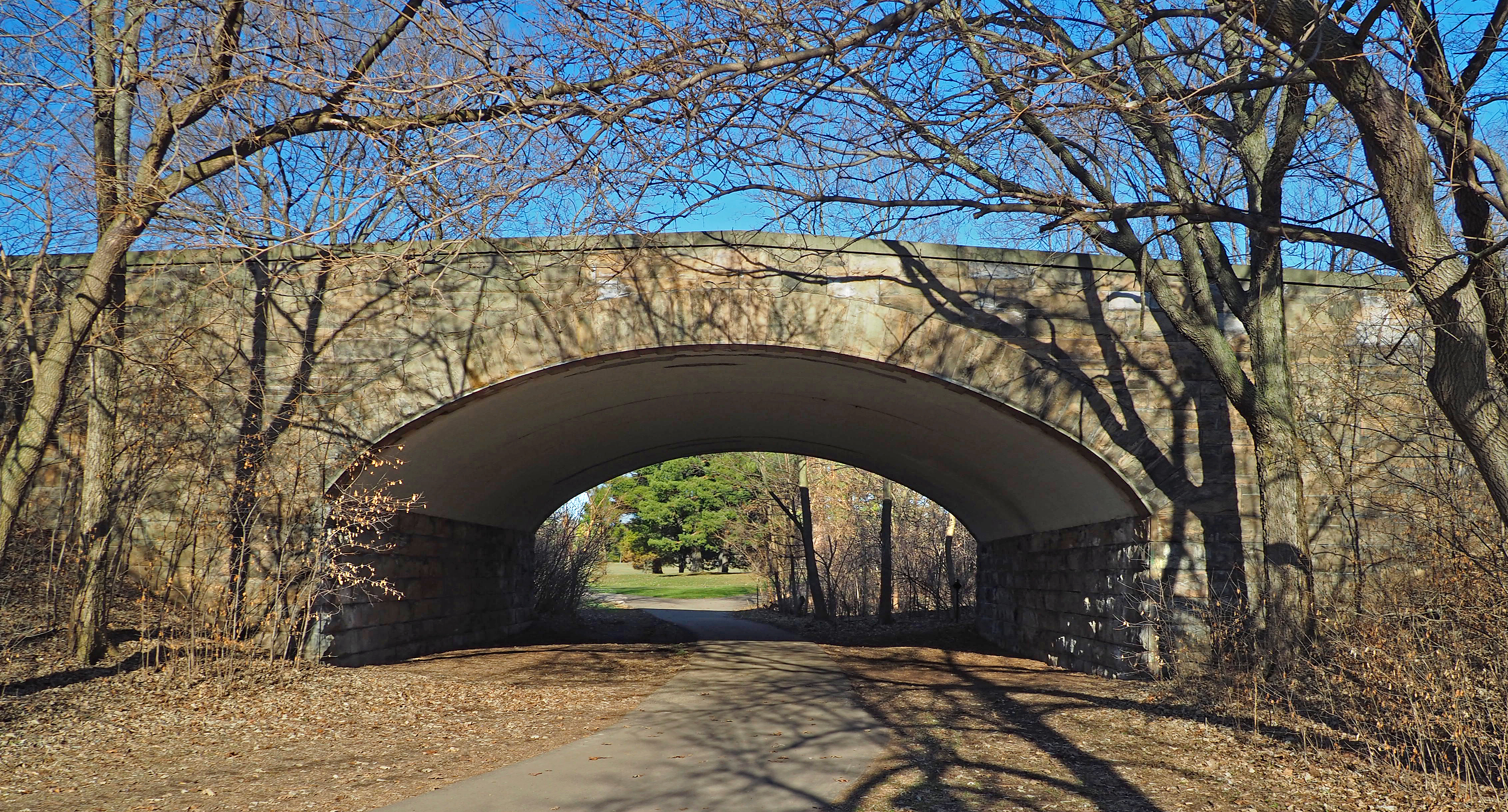 Bridge 92247 carrying Lexington Pkwy over a former streetcar line turned footpath in Como Park, St Paul, Minnesota, USA. Viewed from the east.